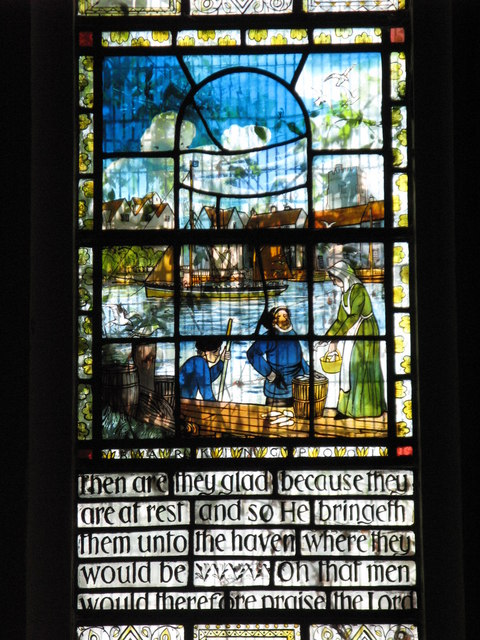 (Part of the) Fishermen's Window, St Margaret's Church Designed by George Jack - This (right hand) panel has a view of the Town Quay with the church bell tower in the background.